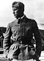 Portrait